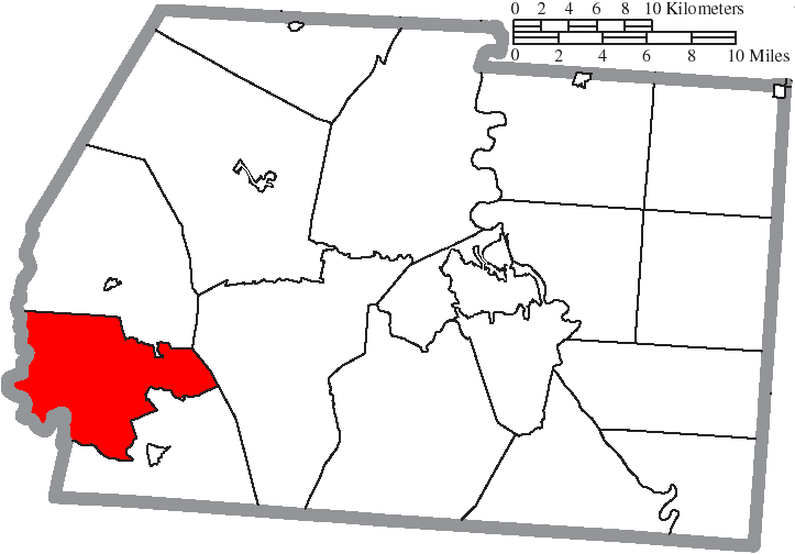 Map of the municipal and township boundaries of Ross County, Ohio, United States, as of the 2000 census, with the location of Paint Township highlighted. Township borders are shown only in unincorporated areas in order to differentiate incorporated and unincorporated areas more clearly.